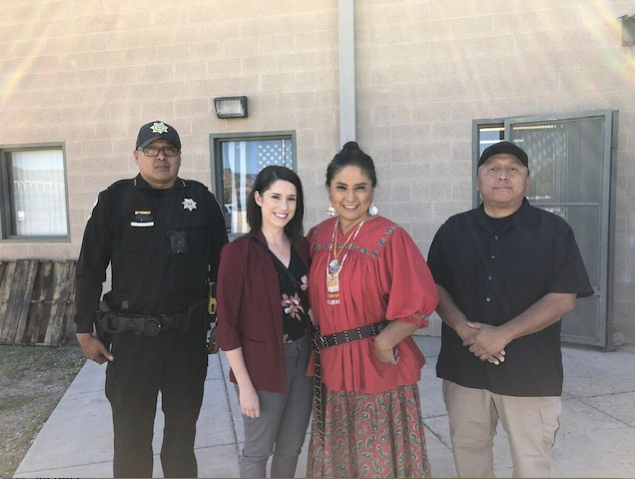 Our team is working with White Mountain Apache Tribe leaders to serve Arizonans in rural and tribal areas.